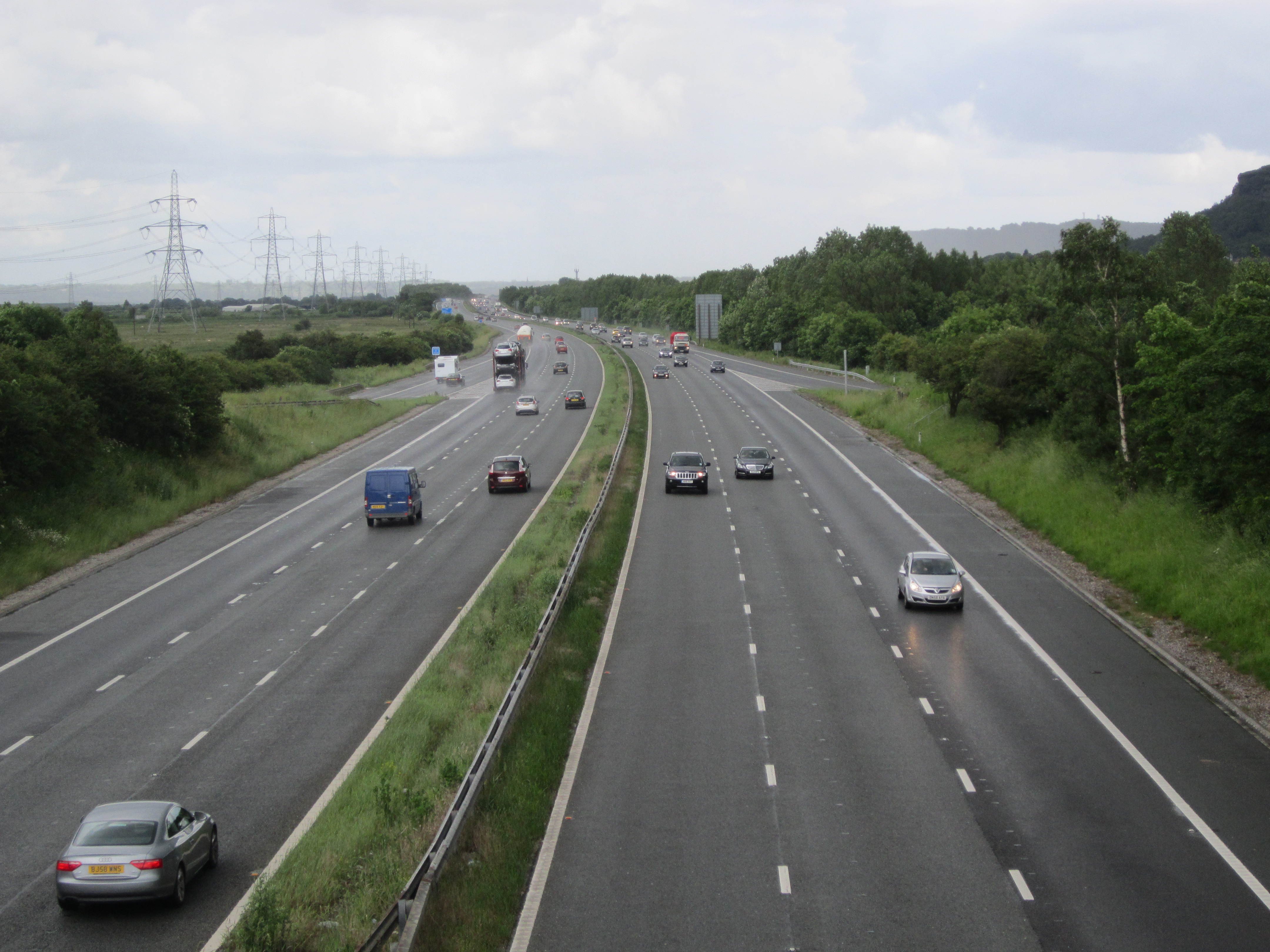 Looking in the eastbound direction along the M56 motorway from the A5117 road near Elton, Cheshire, England.